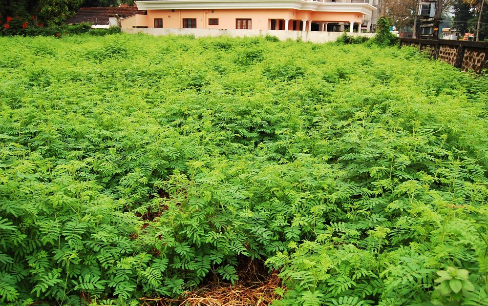 Mimosa diplotricha